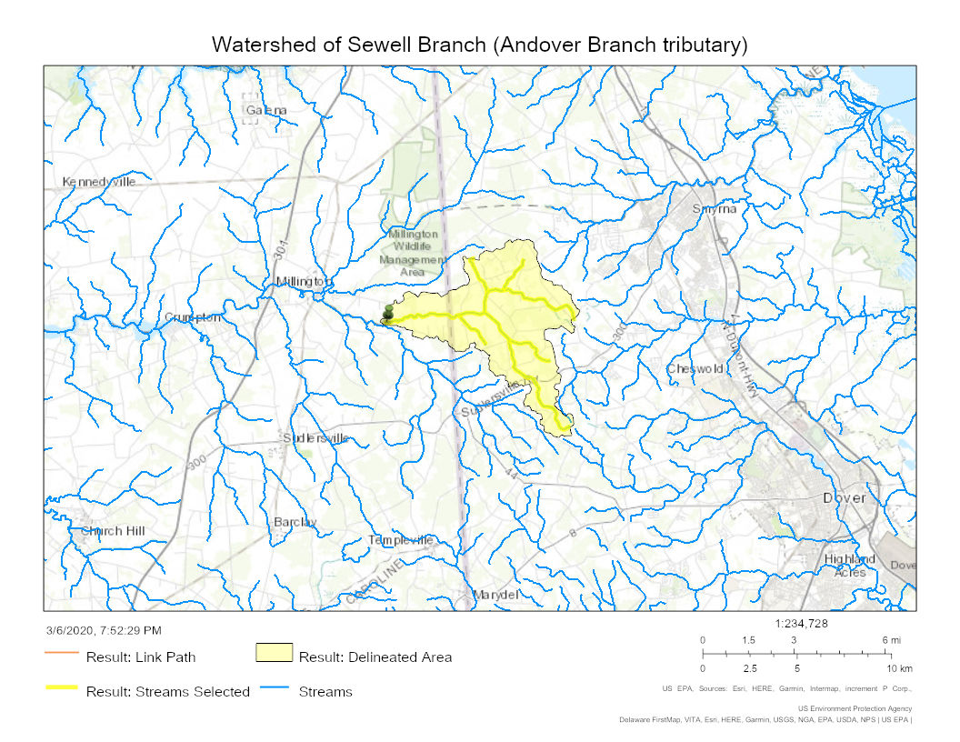 Watershed of Sewell Branch (Andover Branch tributary) in Kent and Queen Annes Counties, Maryland and Kent County, Delaware.